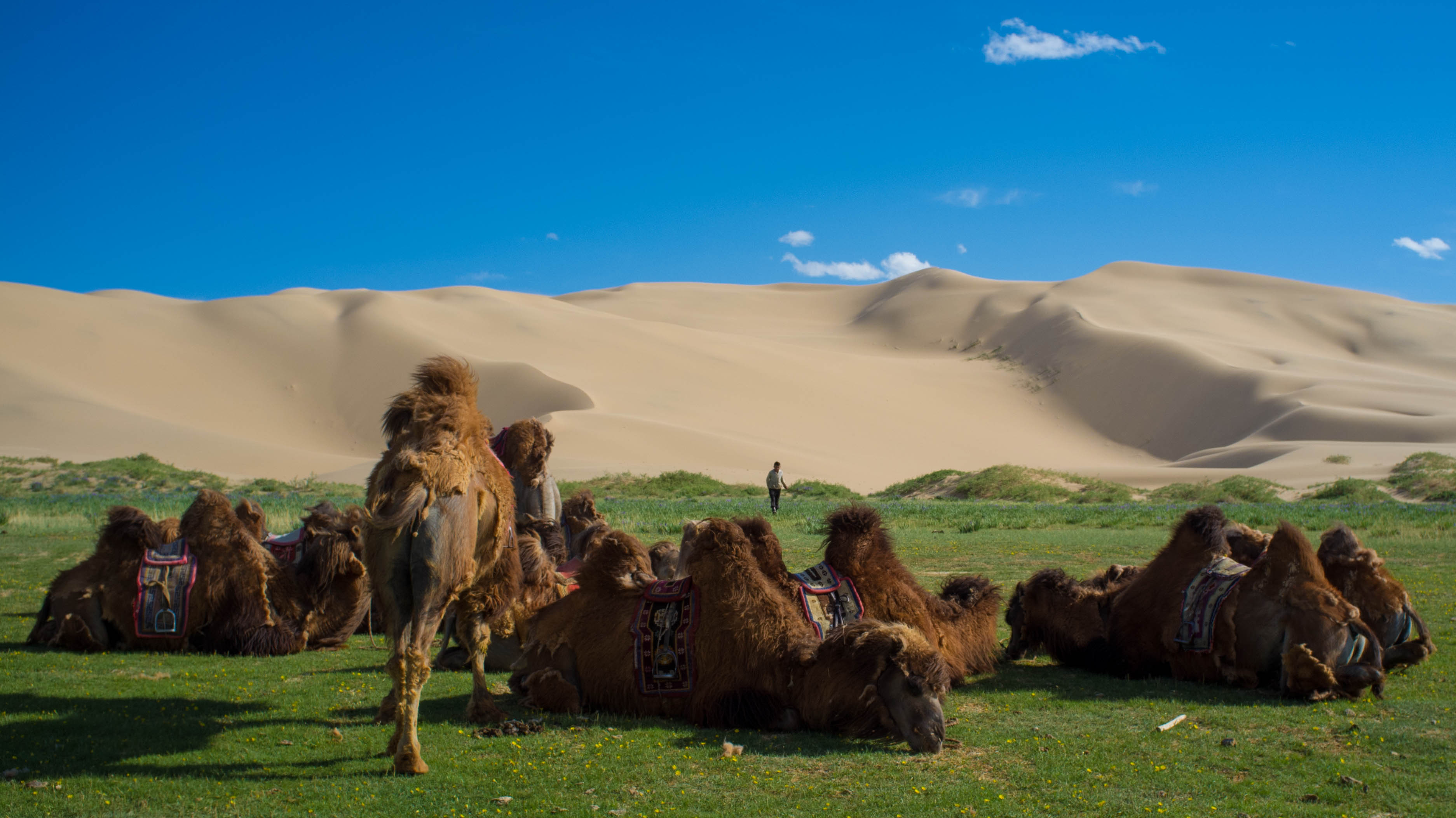 Bactrian camels by the sand dunes of Khongoryn Els, Gurvansaikhan NP, Mongolia.